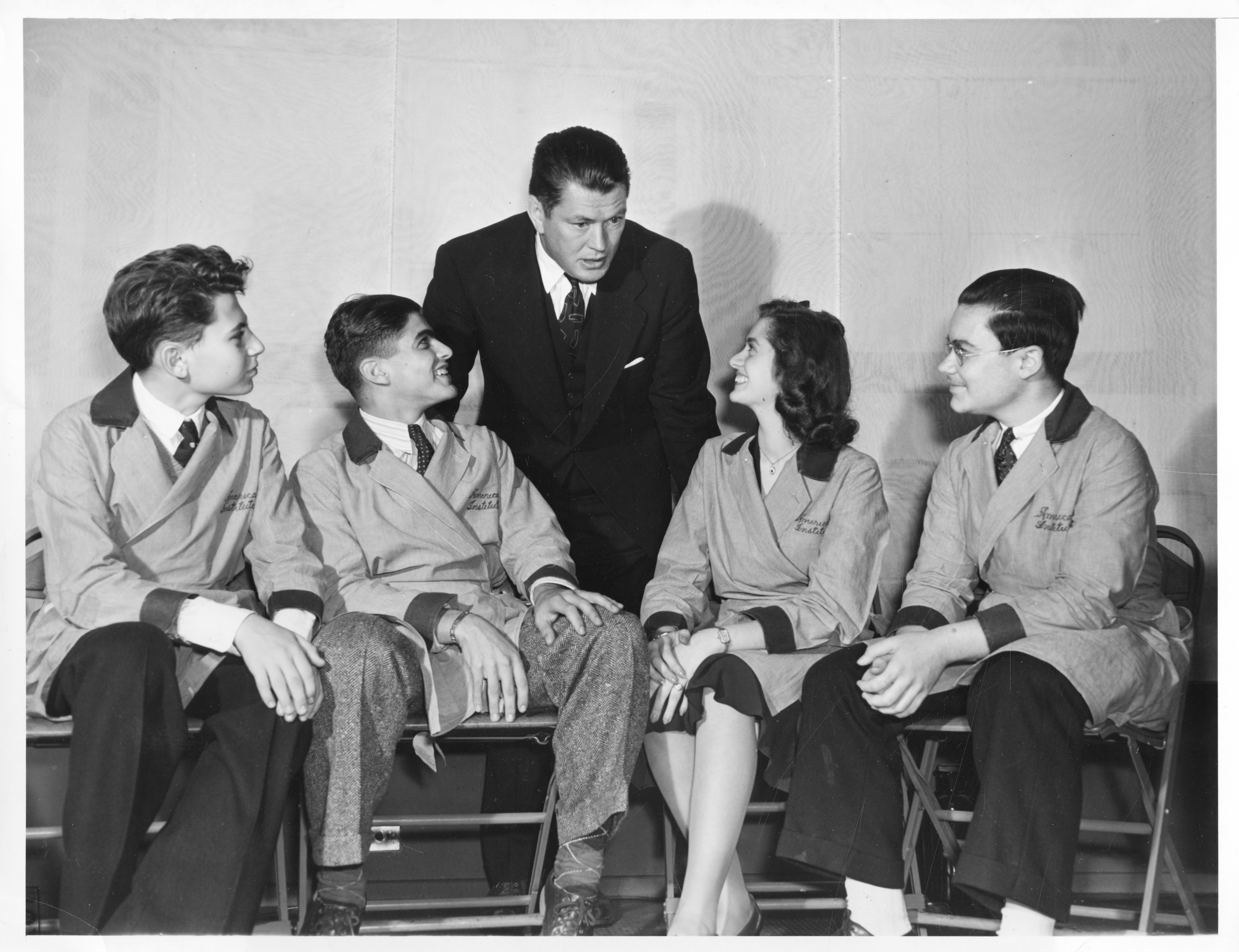 Creator: Westinghouse Electric and Manufacturing Company Subject: Tunney, Gene 1897-1978 Type: Black-and-white photographs Date: 1940 Topic: Science fairs Women scientists Local number: SIA Acc. 90-105 [SIA2010-0192] Summary: World heavyweight boxing champion James Joseph "Gene" Tunney (1897-1978) became active in youth work after his retirement from the ring. He is shown in the Westinghouse Building at the World's Fair, chatting with four competitors in the American Institute of New York's science fair. Following the permanent sealing of a time capsule at the Westinghouse Building, Tunney spoke to an audience of business, science, and youth leaders. With Tunney are, left to right, Irving Lazarowitz, Alan Bernstein, Theresa Zinghini, and Jack Zimmer, who were participating in the American Institute's "Showcase Laboratories" at the Westinghouse Building. Beginning in 1941, the science fair competition was transferred to Science Service and became the Science Talent Search Cite as: Acc. 90-105 - Science Service, Records, 1920s-1970s, Smithsonian Institution Archives Persistent URL: Repository:Smithsonian Institution Archives View more collections from the Smithsonian Institution.